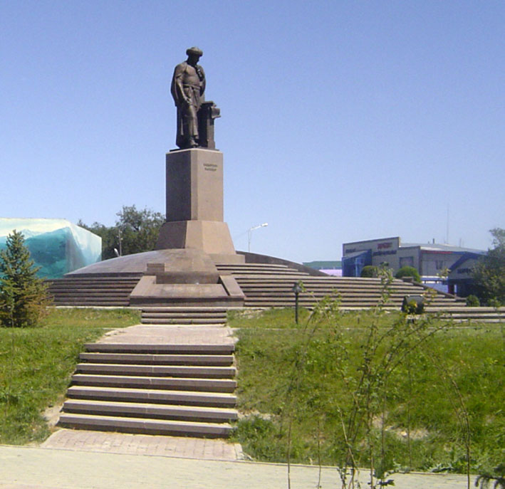 Кадыргали Жалайыр